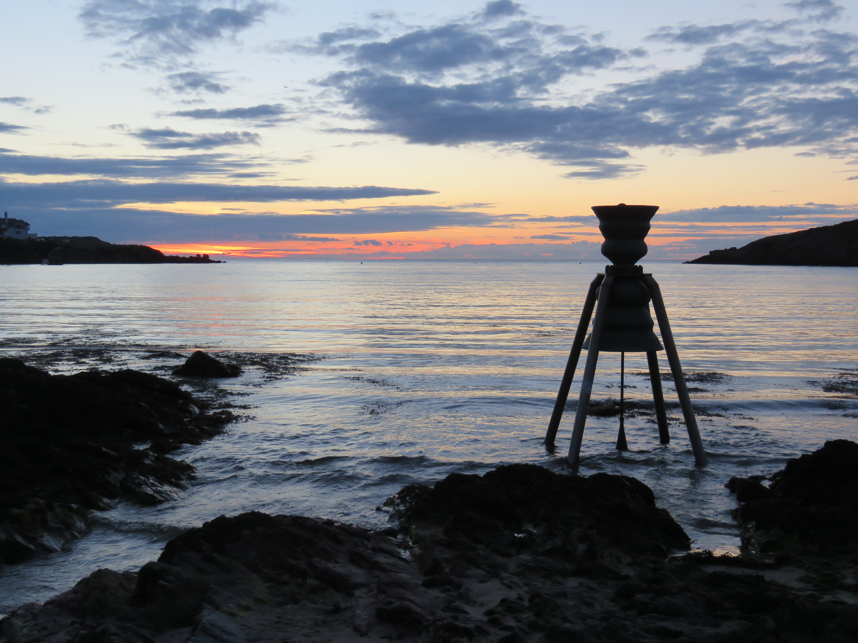 sunset at Cemaes Bay, Anglesey with Time and Tide Bell